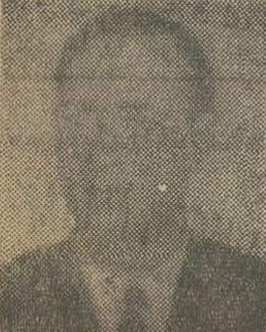 Ettelaat newspaper